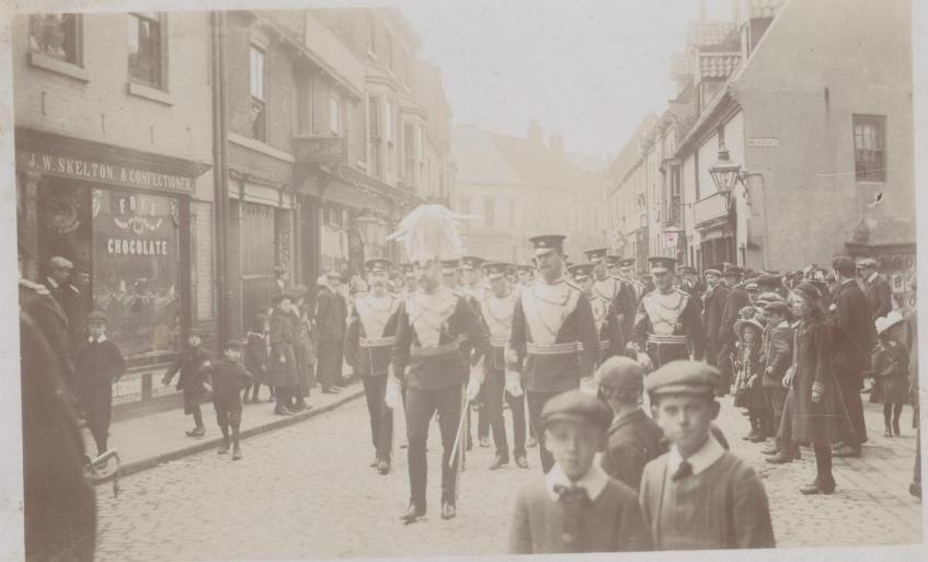 This week’s image is of Toll Gavel from the east, with the East Yorkshire Yeomanry in procession circa. 1910. Walkergate is off to the right in the picture and on the left is J.W.Skelton & Confectioners, displaying an advert on the glass window for ‘Fry’s Chocolate’. People are viewing the procession from their windows above the shops. Just before the sweet shop there is an overhead sign which reads ‘Bon Marche.’ Today this high street clothing chain still trades in town but is located further along at 61 Toll Gavel. The Regiment was formed in 1902, by the Government, following the Boer War (1899-1902). They decided to raise several additional Regiments of Yeomanry and Lord Wenlock was appointed Colonel, which resulted in the Regiment becoming known locally as ‘Wenlock’s Horse’. The first headquarters and barracks were at Walton Street, Hull, which were used for administration and training, and the Beverley headquarters were based at Railway Street. Drill stations were located at North Cave, Hornsea and Patrington. (Why not try searching our East Riding of Yorkshire Map for more historic images? ) (Copyright) We're happy for you to share this digital image within the spirit of Creative Commons. Please cite ' ' when reusing. Certain restrictions on high quality reproductions and commercial use of the original physical version apply. If unsure please